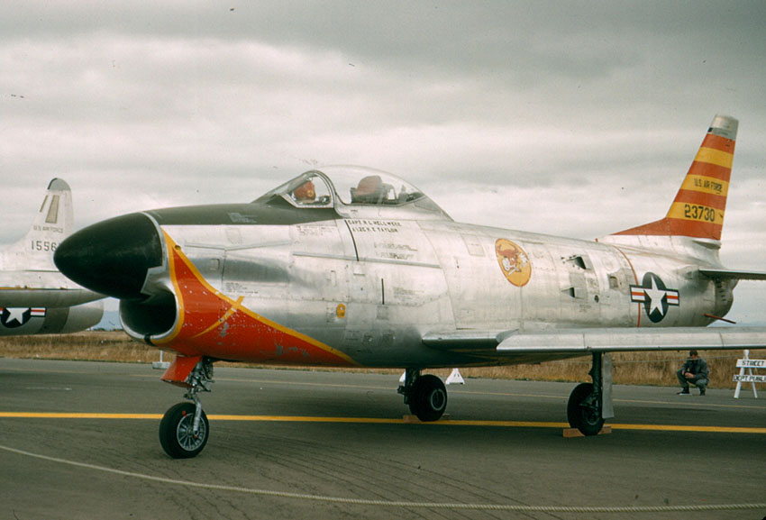 F-86 of the 13th Fighter-Interceptor Squadron